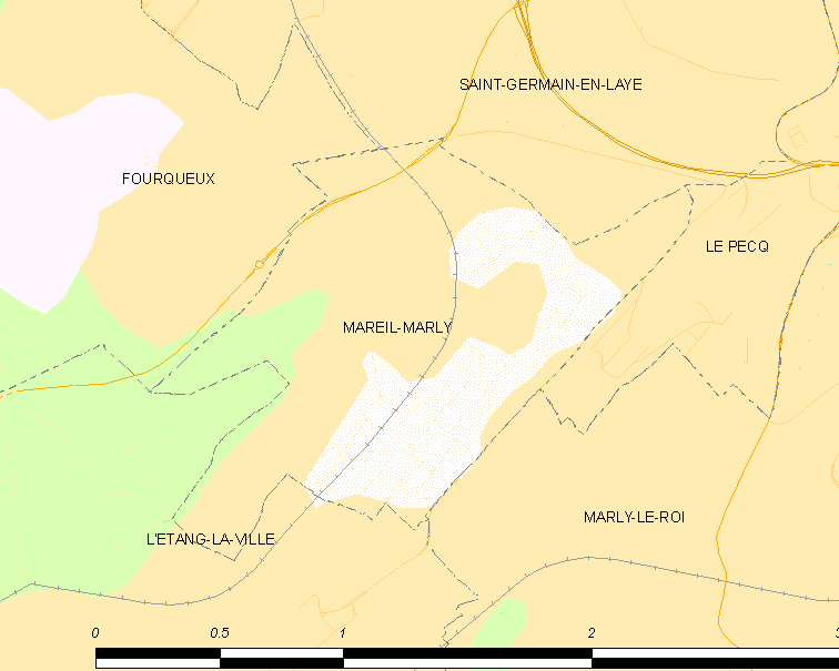 Map of French municipality Mareil-Marly